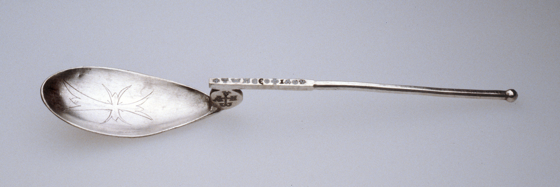 The celebration of the Divine Liturgy is one of the most important ceremonies in the Christian Church. This spoon is part of a silver service (with Walters 57.634, 57.635, 57.642, 57.644, 57.645, 57.646, 57.650, and 57.638) that is one of only four to survive from the first "golden age" of Byzantium (6th century). Each of the vessels in this service performed a sacred function in the liturgical service. Strainers and spoons were used to filter and stir the wine. This silver service was found in Syria in 1910, in the village of Kurin. The Greek form of its name, Kaper Koraon, is inscribed on several pieces in the treasure, including a chalice, which reads: "...treasure of the Church of St. Sergios of the village of Kaper Koraon." Almost all of the vessels record the names of donors who gave pieces from their private dinner services in fulfillment of a vow, to gain divine blessing, or in prayer for salvation.